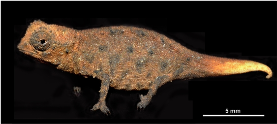 Brookesia micra male